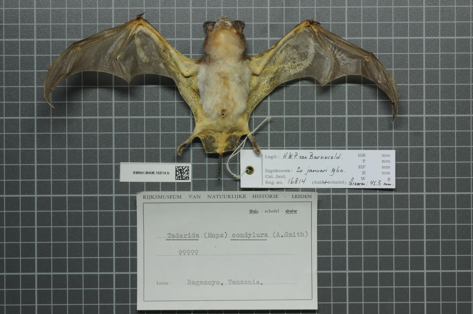 Mops condylurus